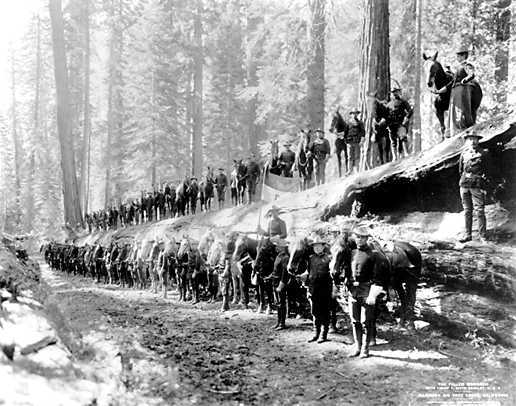 United States F Troop, Sixth Cavalry Regiment, 1899, next to fallen sequoia in Mariposa Big Tree Grove, Yosemite National Park, California